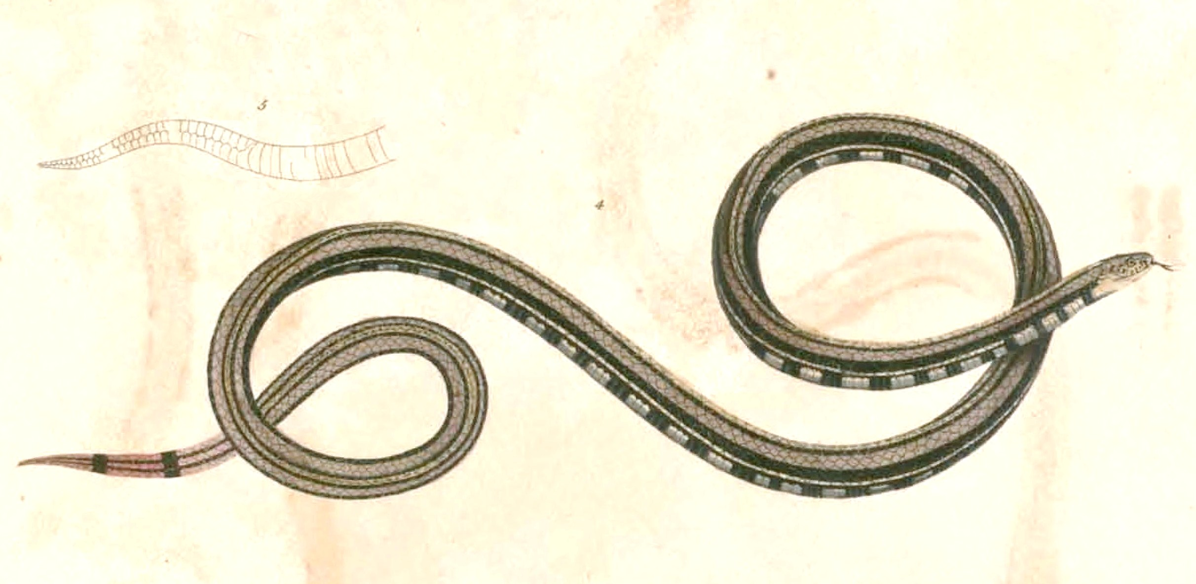 « Maticora lineata » = Calliophis intestinalis lineata